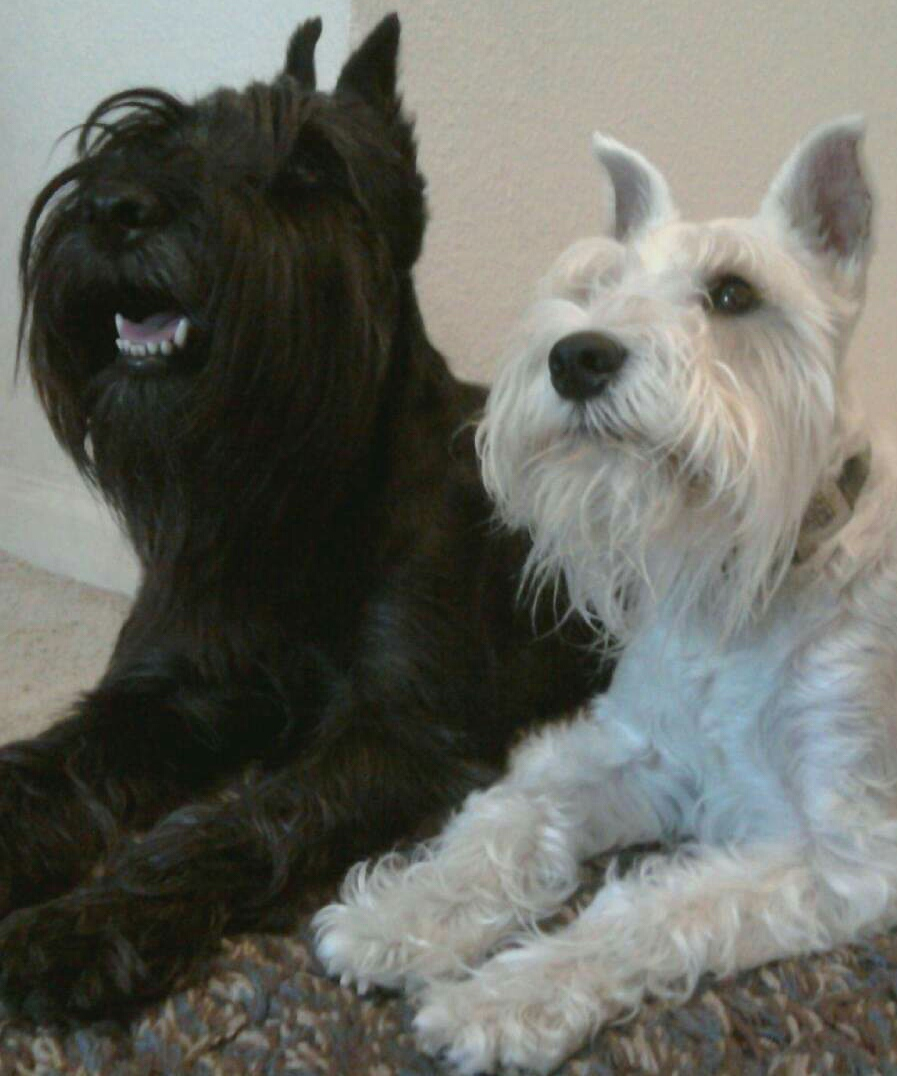 Black standard and white miniature schnauzer with cropped ears